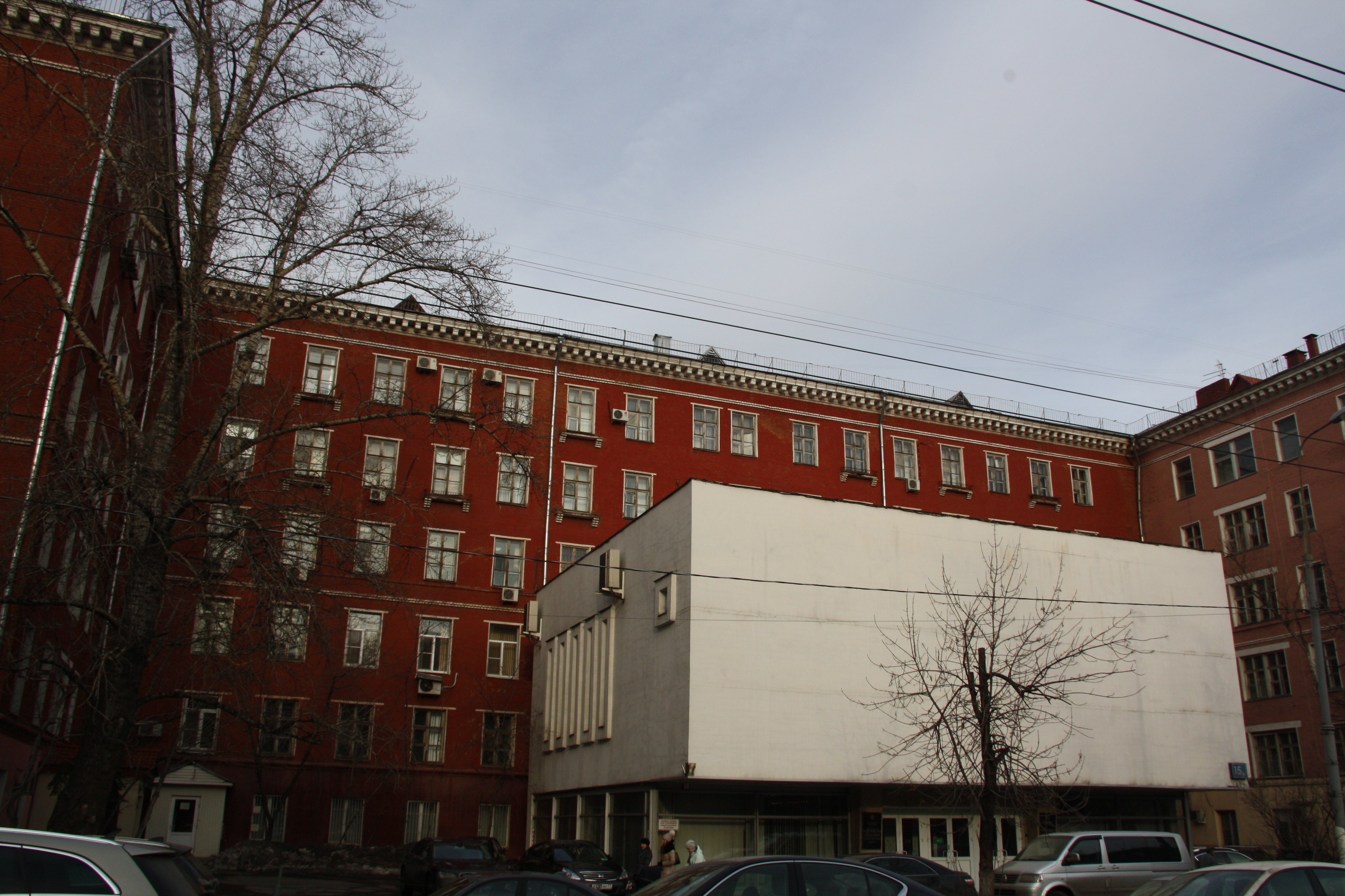 РАСХН